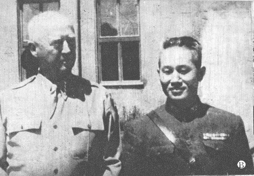 Sun Liren and George S Patton in Southern Germany.